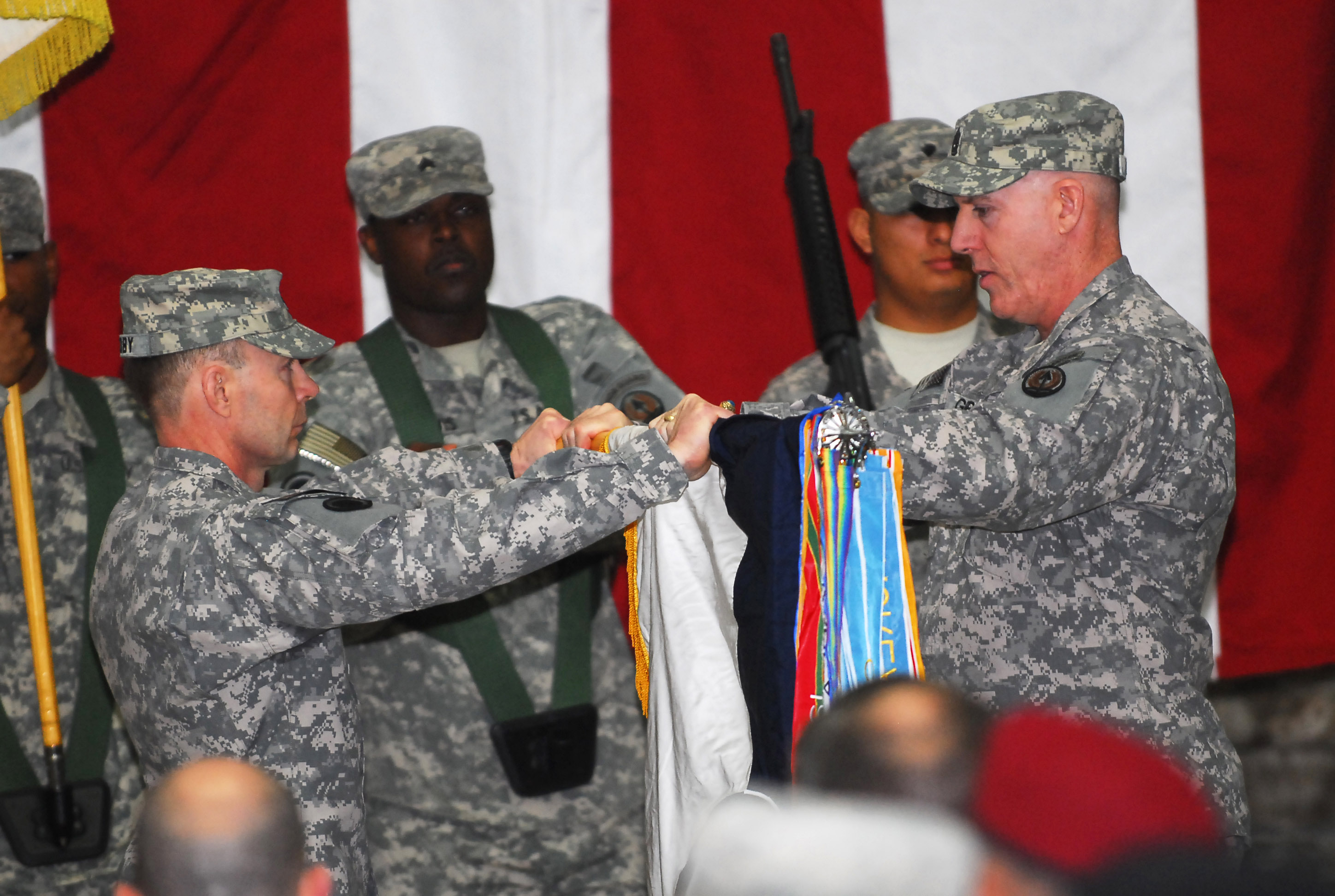 Lt. Gen. Charles H. Jacoby, left, commander of 1st Corps, and Command Sgt. Maj. Frank Grippe of 1st Corps, uncase the Corps' colors during a ceremony in which Lt. Gen. Lloyd J. Austin III, commander of 18th Airborne Corps, relinquished command of Multi-National Corps - Iraq to Jacoby. The ceremony took place at Al Faw Palace, Camp Victory, Iraq, April 4, 2009.